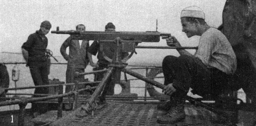 World War I in Reims-Verdon sector, France. Original caption: “The colt machine gun on the stern of the Luckenbach.”